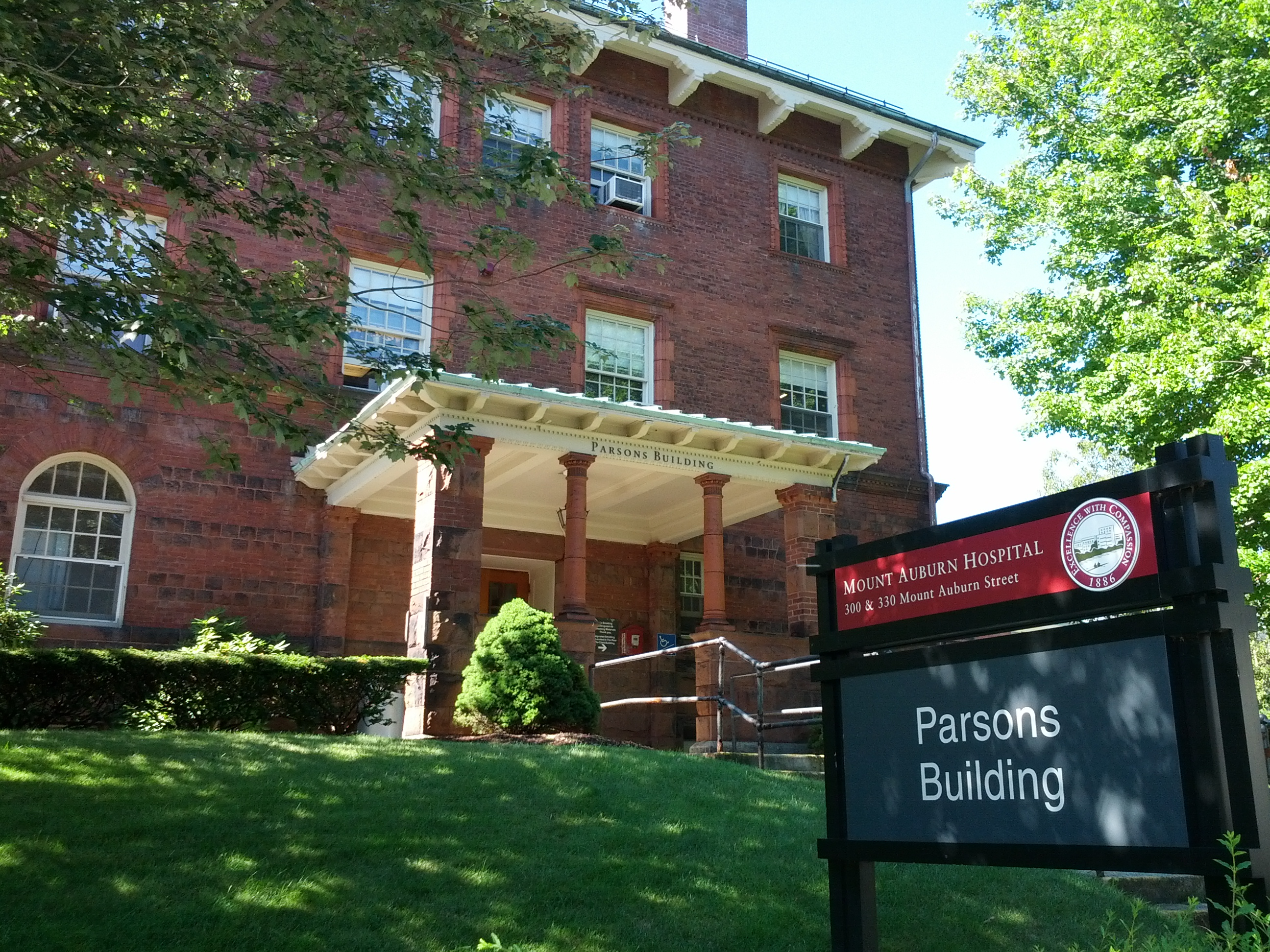 The first building of Mt. Auburn Hospital, the Parsons Building (also called the Main Building), opened in 1886